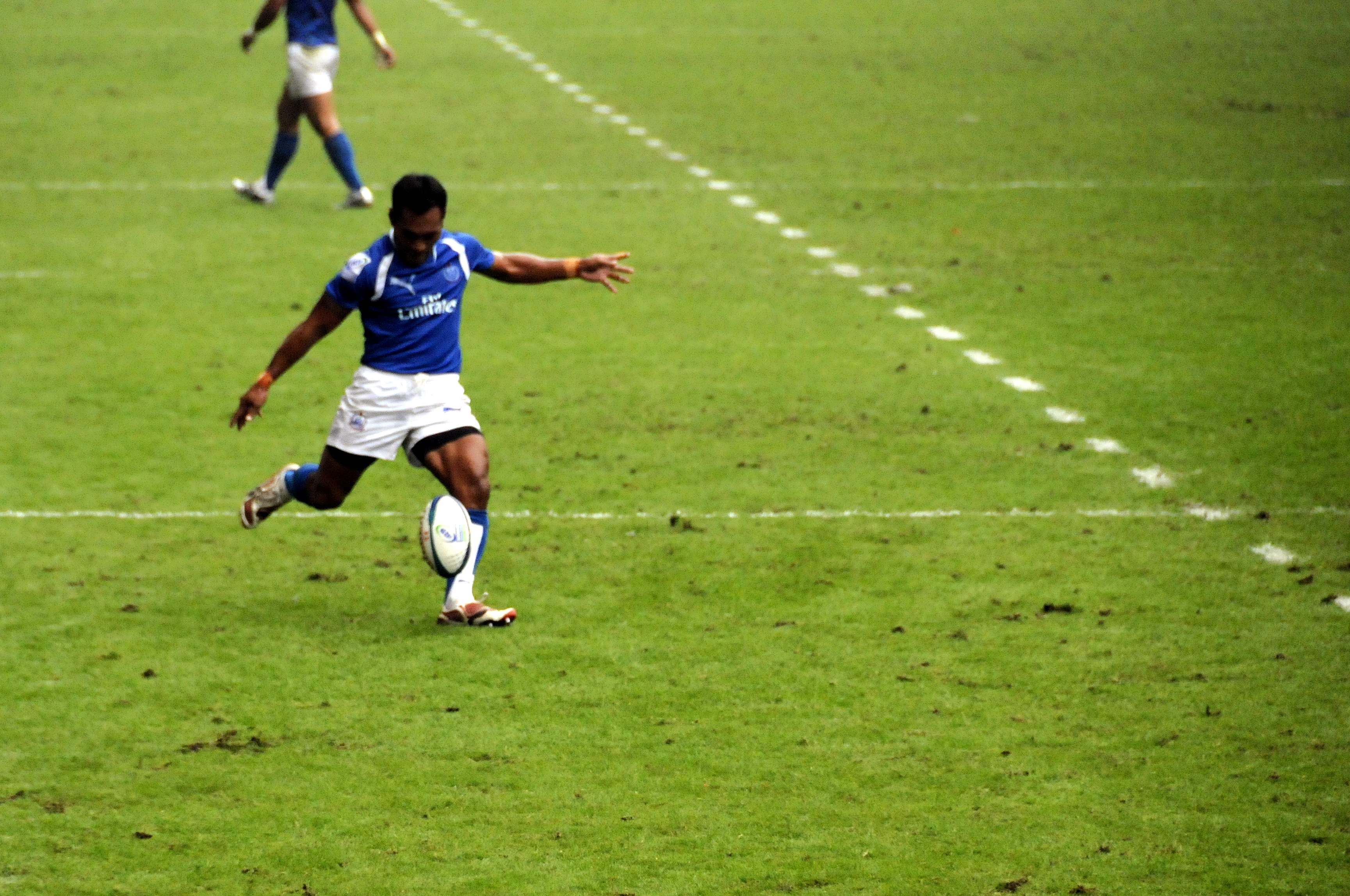 Uale Mai playing for the Samoa Sevens rugby team kicks ball, 2009.